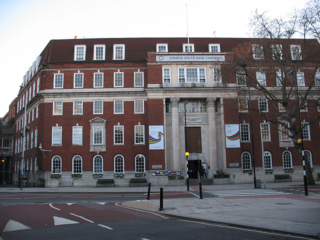 London South Bank University buildings. The main University entrance on Borough Road, Southwark, London, England.